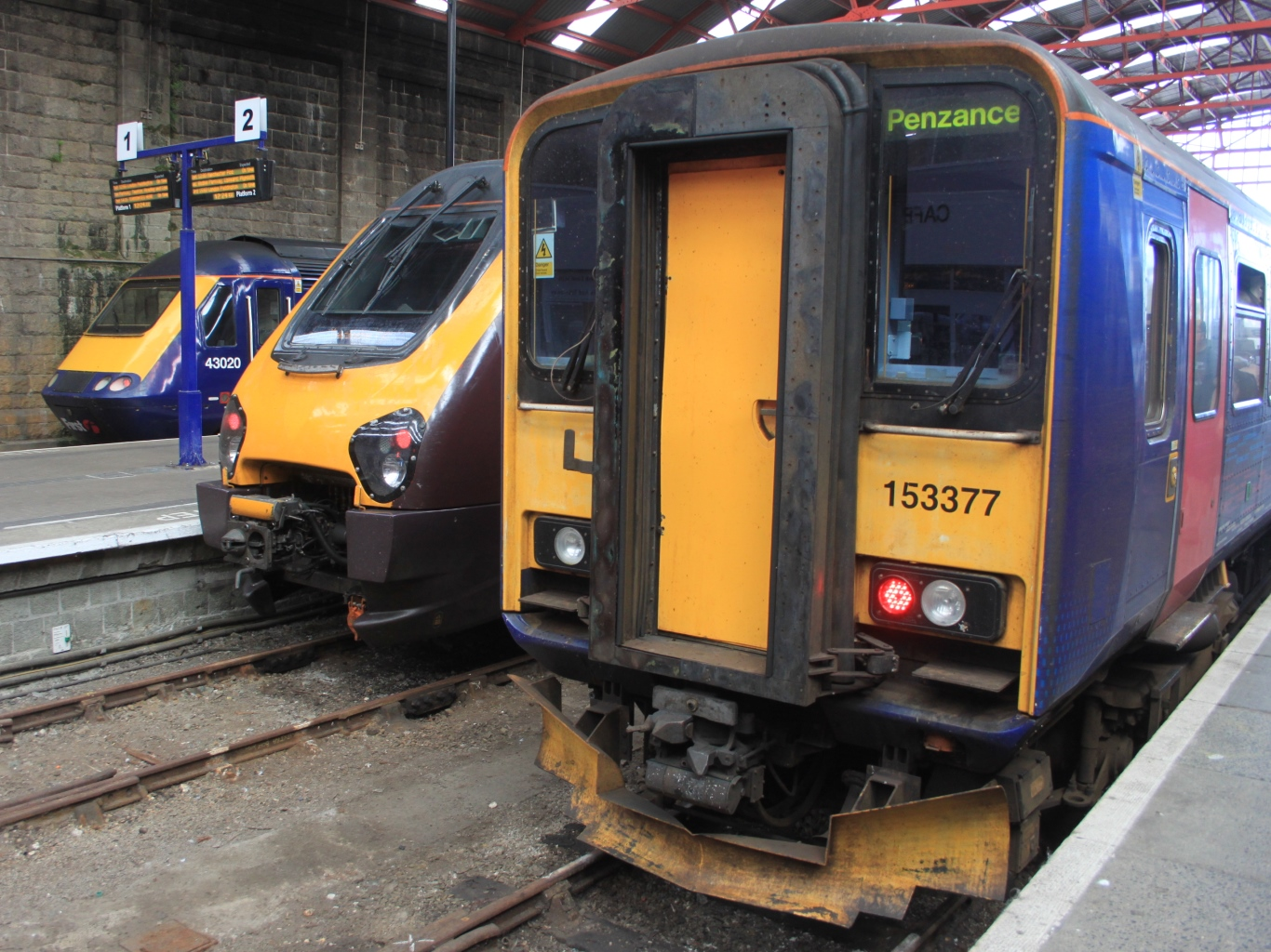 A busy Sunday lunchtime at Penzance, the end of the main line in Cornwall. From right to left is Great Western Railway's 153377 which has just arrived from Bristol; CrossCountry's 221137 which is preparing to leave for Manchester; and Great Western Railway's 43020 on the rear of a London service